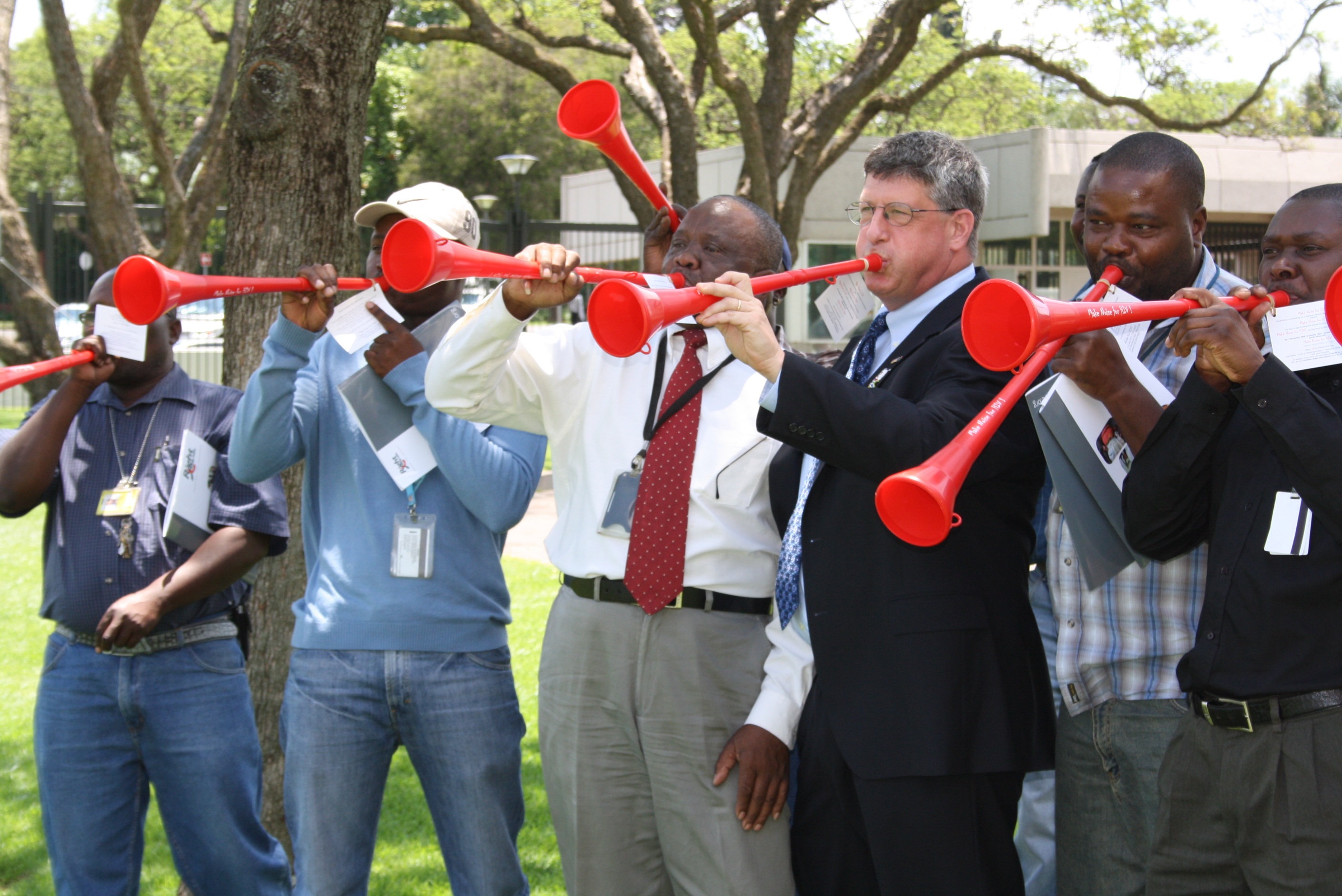 All tested receive vuvuzelas from 'Right to Care'. Ambassador Gips takes this opportunity to practice with the more expert players. Perhaps in preparation for FIFA 2010 World Cup South Africa?